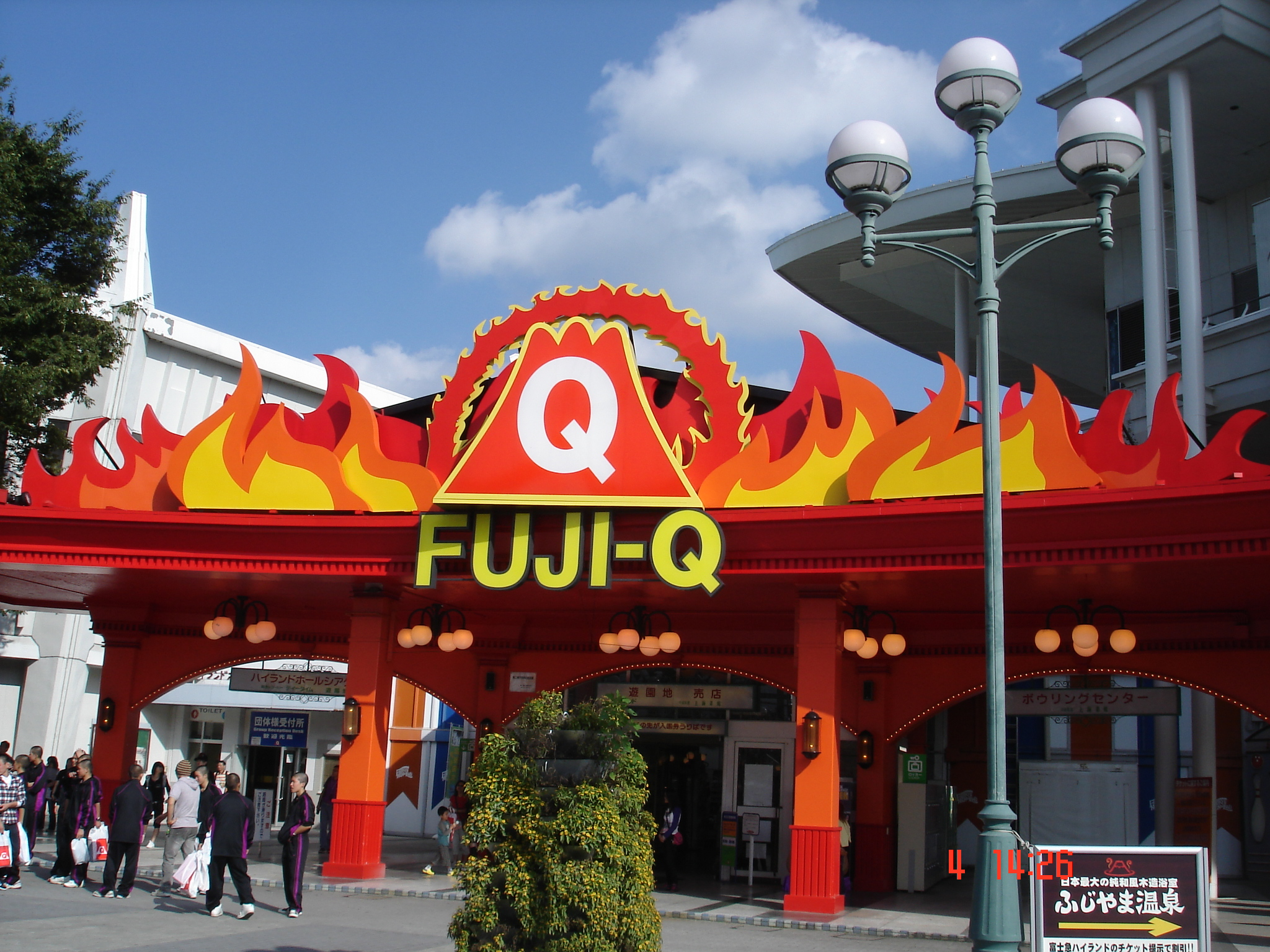 Main Gate of Fujikyu Highland Amusement park